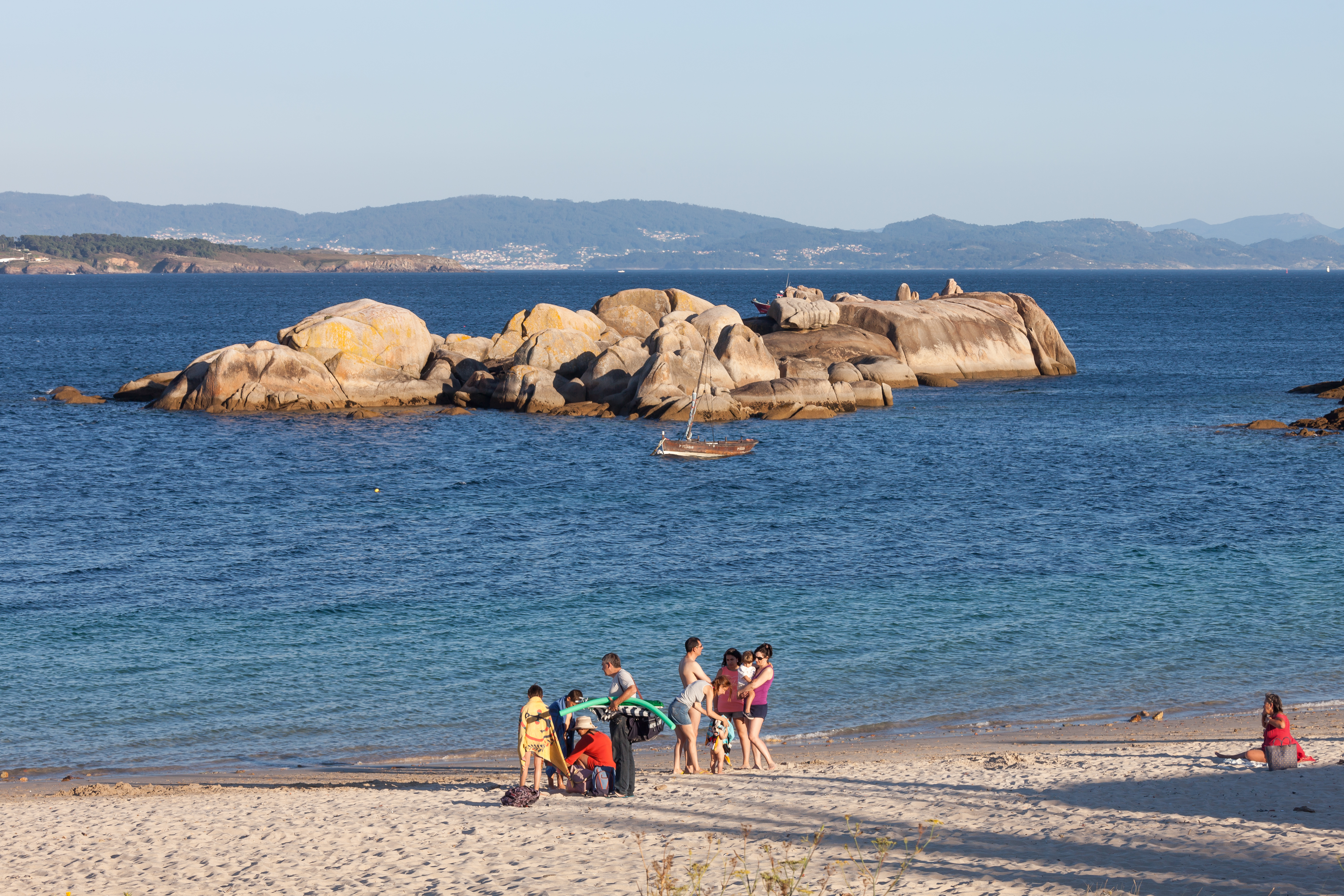 Picking up after a day at the beach. Sea and rocks in the ria of Pontevedra. San Vicente do Mar, O Grove, Galicia, Spain.